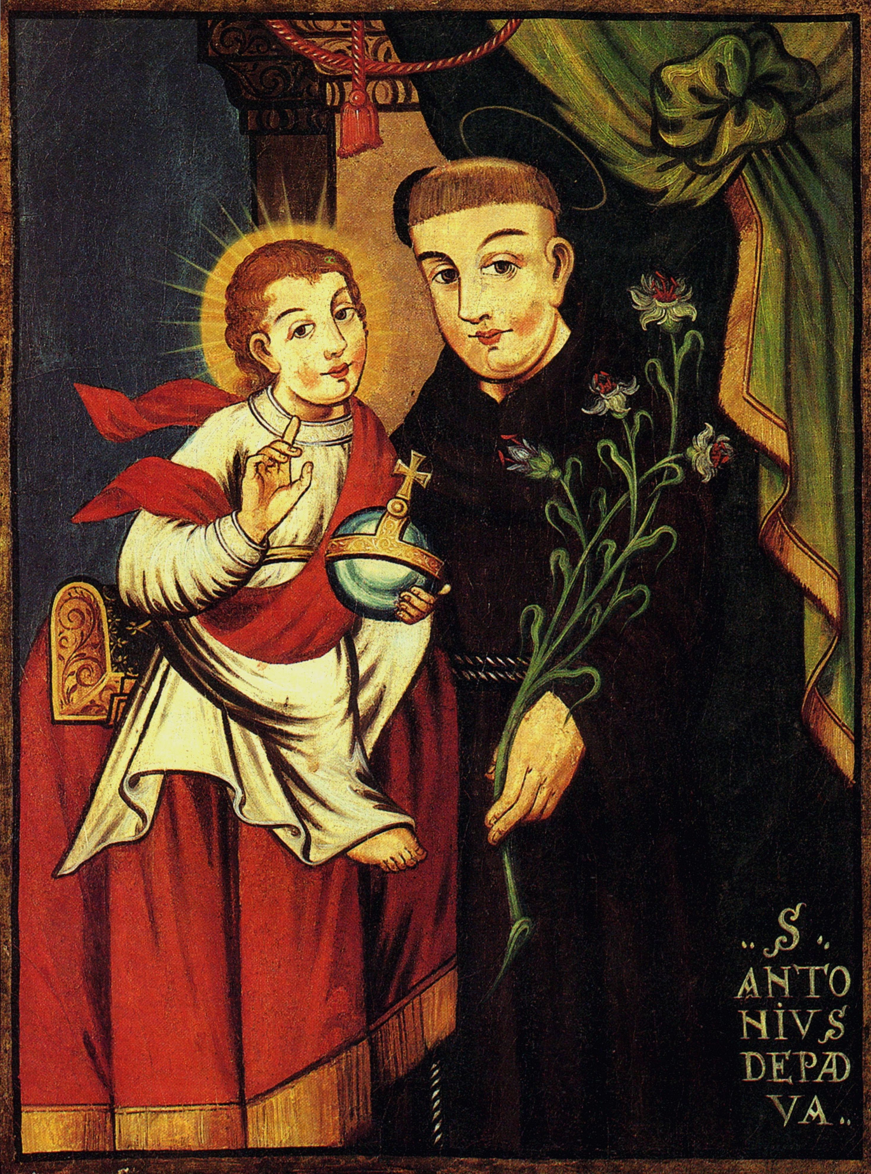 The icon features the miracle of the appearance of the Christ Child before the St. Antony.